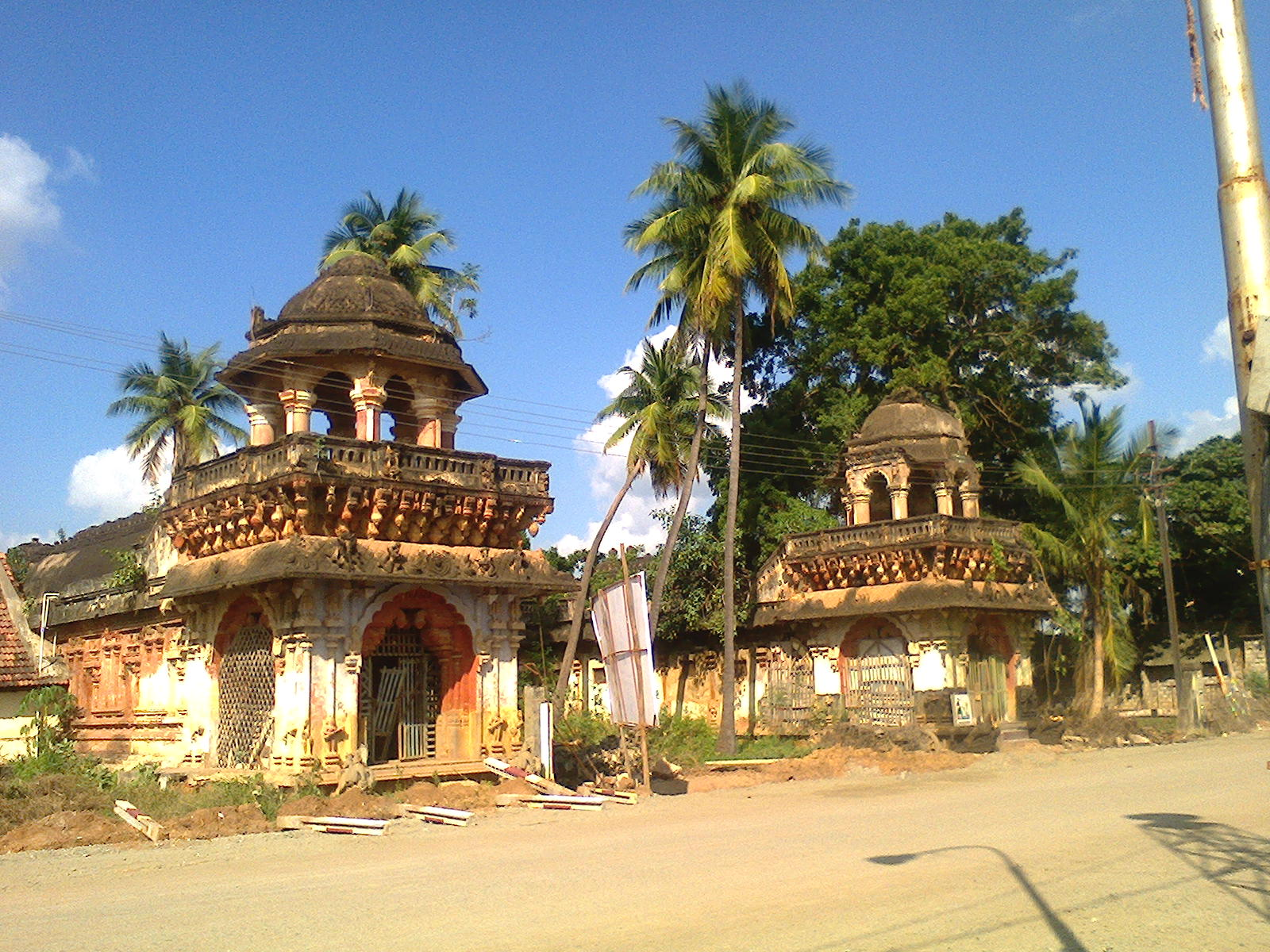 Muktambal chatram in Orathanad, Tamilnadu